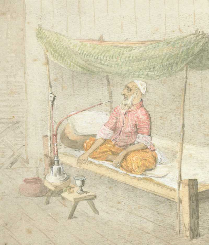 "The King of Delhi", a sketch of Bahadur Shah in exile by Horatio Gordon Robley, a British officer who was posted in Burma at the time.